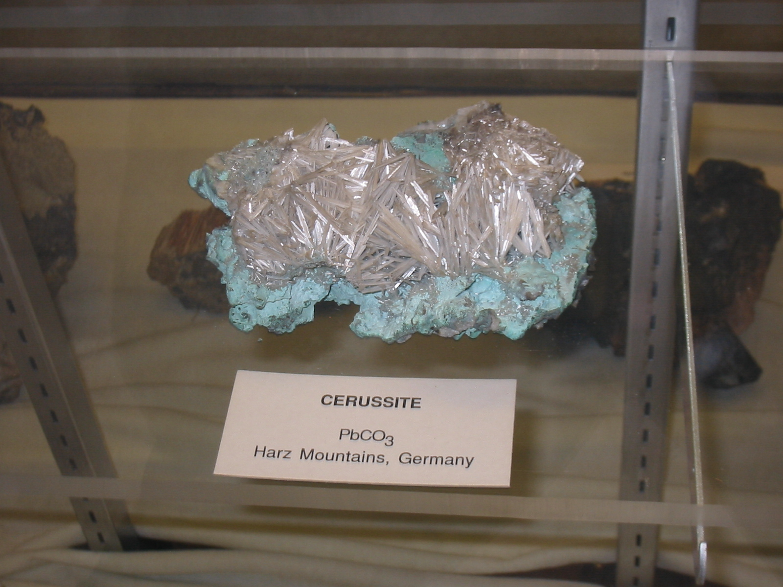 A sample of Cerussite on display in Yale University's Kline Geology building.